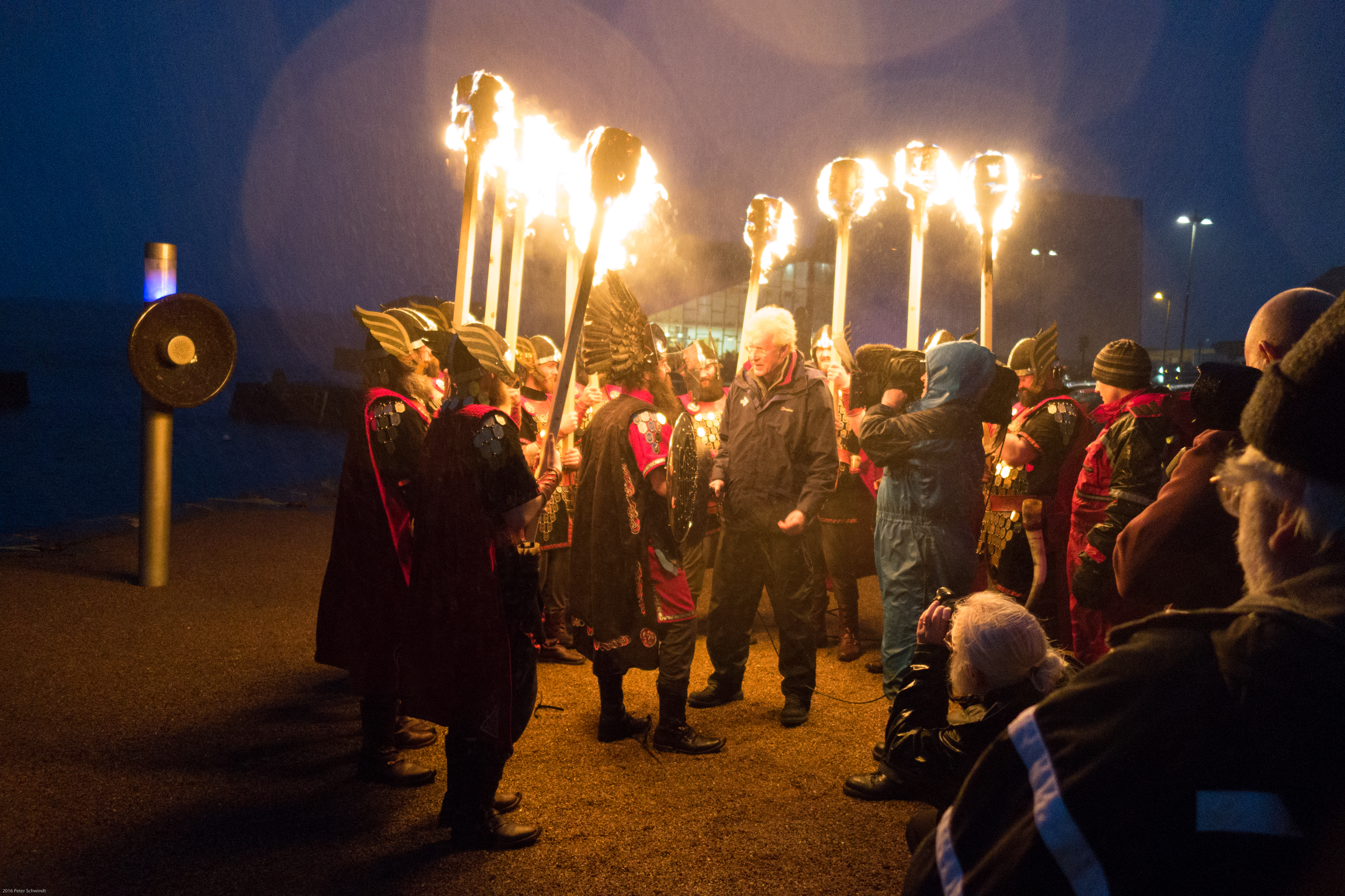 Guizer Jarl & Jarl Squad getting interviewed outside Shetland Museum during Up Helly Aa 2016